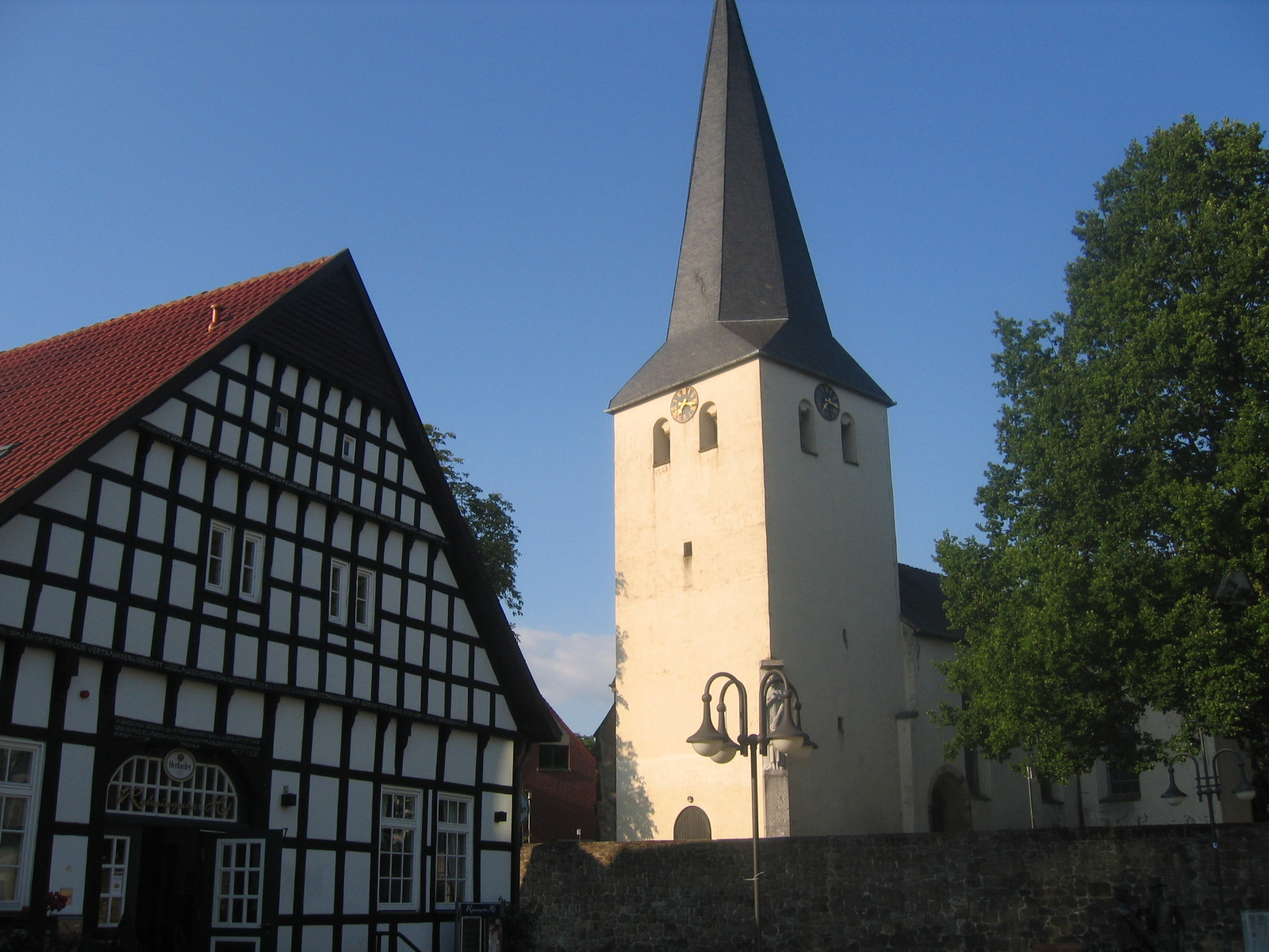 St. Lawrence in Bünde, District of Herford, North Rhine-Westphalia, Germany.